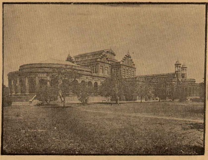 This pic was taken in 1915. This is the famous library situated in Madras.